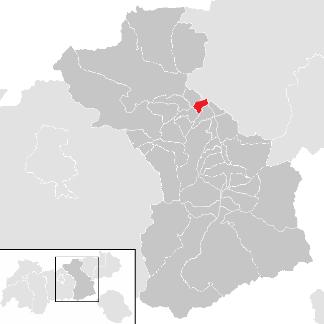 District Schwaz